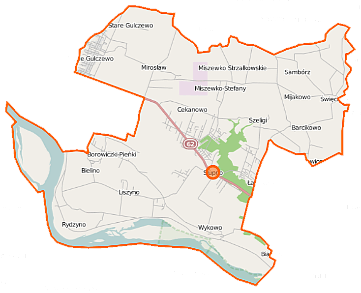 Map of Gmina Słupno, Poland This map of Słupno (gmina) was created from OpenStreetMap project data, collected by the community. This map may be incomplete, and may contain errors. Don't rely solely on it for navigation. Border coordinates52.558119.7256←↕→19.926452.4589